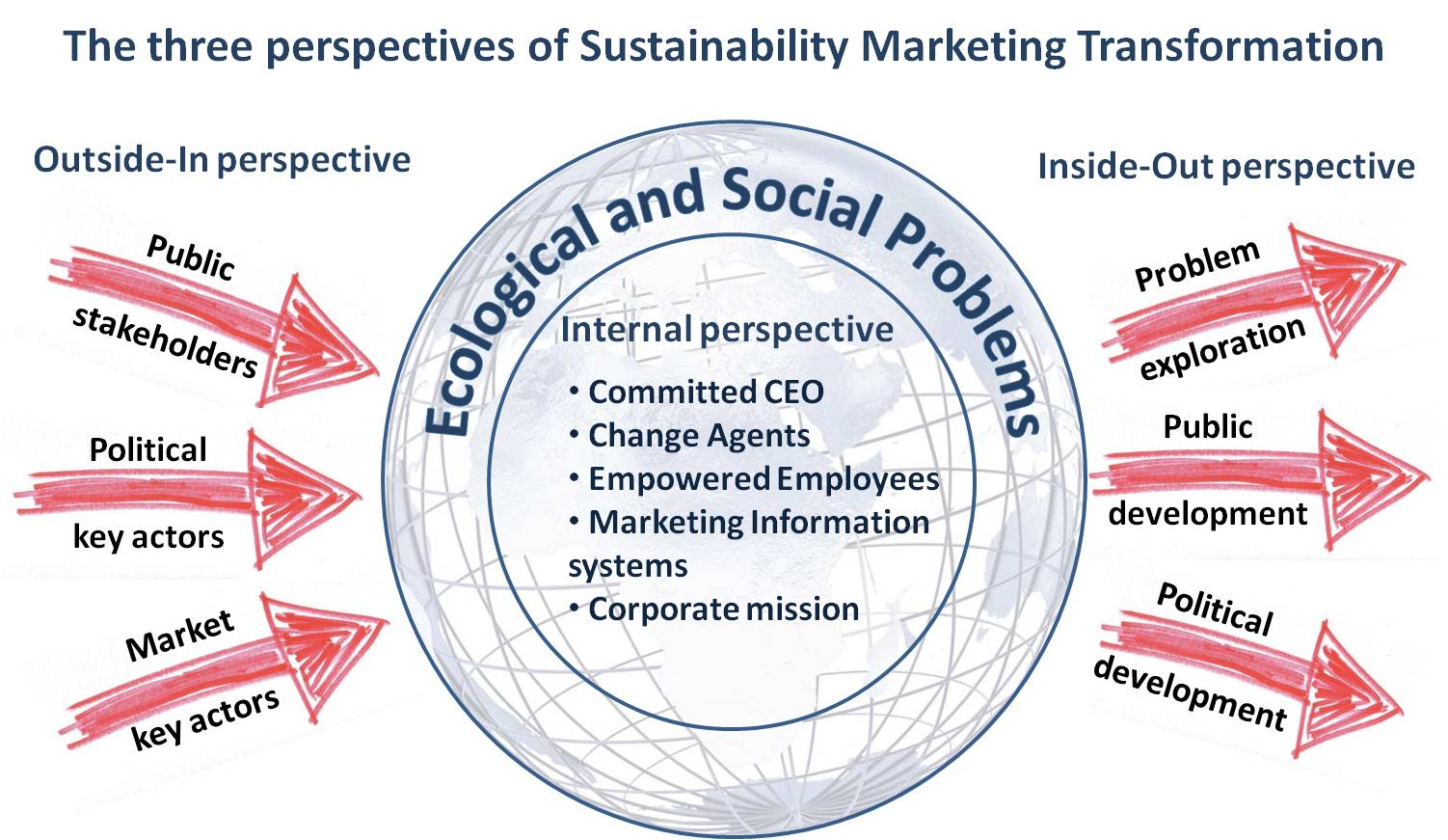 The picture explains on one spot the three perspectives of Sustainability Marketing Transformation which are the Outside-In perspective, the Inside perspective and the Inside-Out perspective